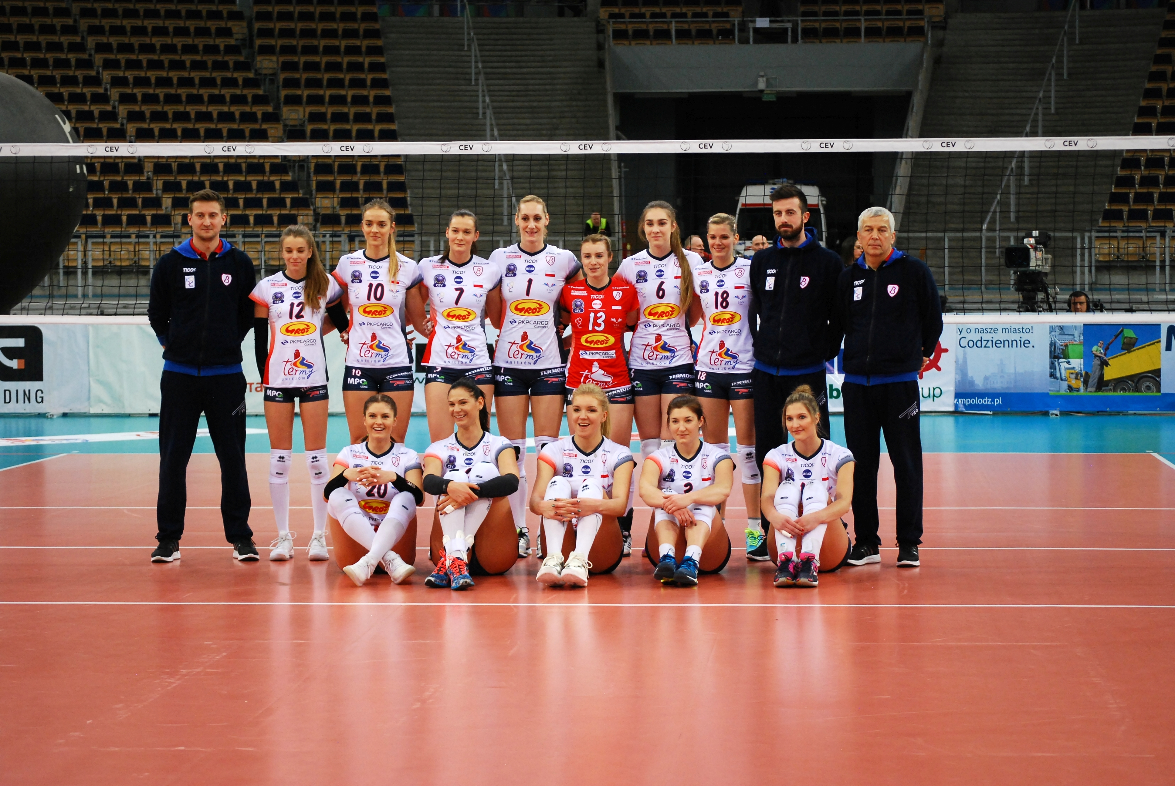 Budowlani Łódź 2017/2018